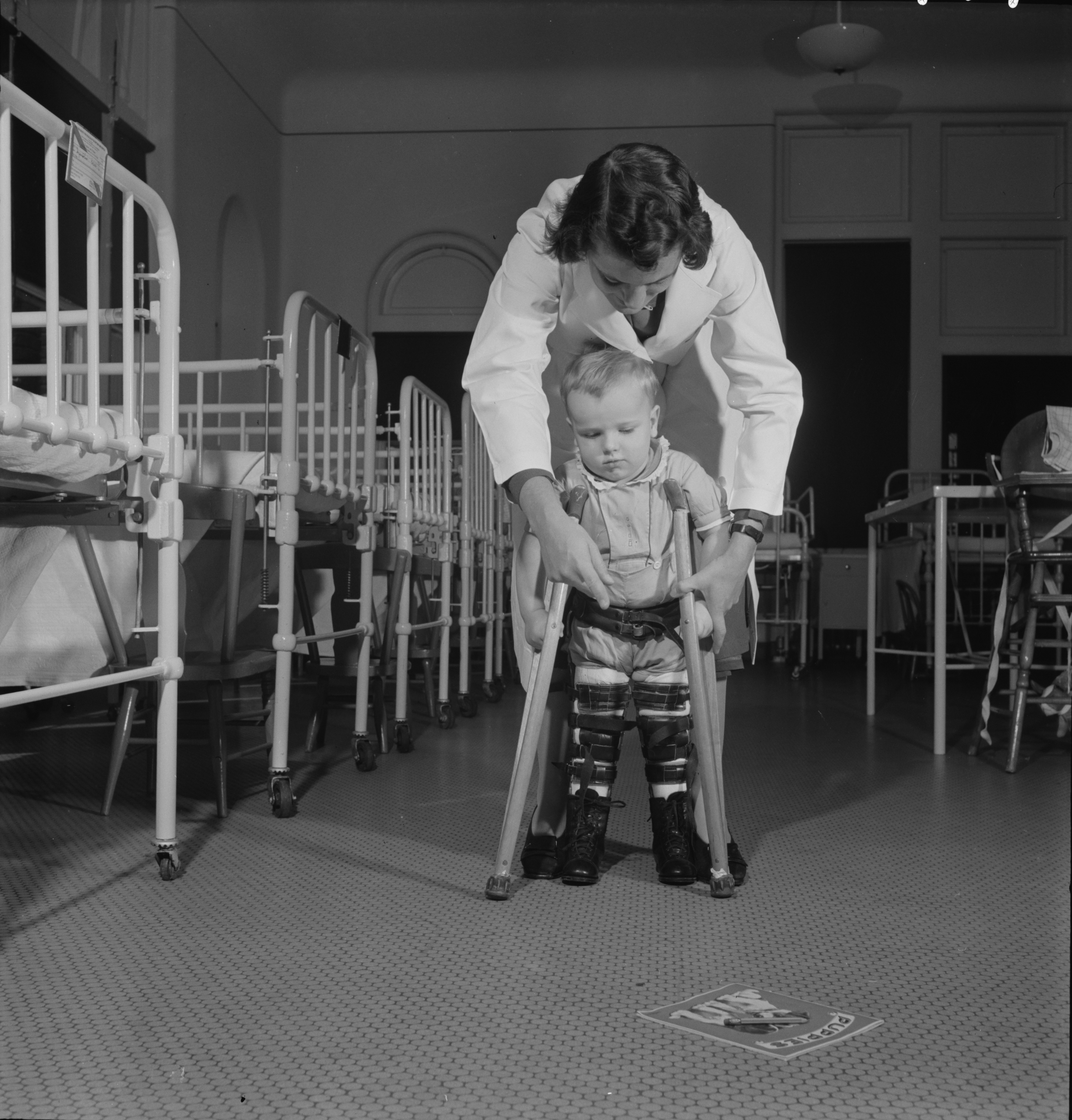 Title: Nurse training. A student nurse, acting as physical therapist, points to the picture book, encouraging a child to learn to use his crutches Creator(s): Henle, Fritz, 1909-1993, photographer Related Names: United States. Office of War Information.